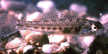 Etheostoma fonticola USFWS photo